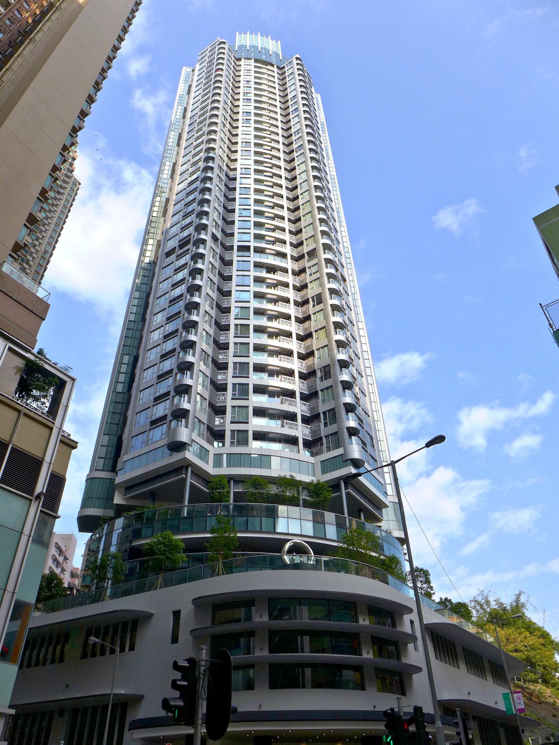 One WanChai